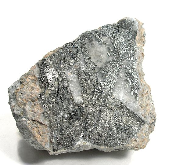 Sylvanite Locality: Sacarîmb (Sãcãrâmb; Szekerembe; Nagyág), Hunedoara County, Romania (Locality at ) Size: 9.7 x 7 x 4.5 cm. An extraordinarily rich specimen with bright silver-colored veins of crystalline sylvanite embedded in the matrix, nicely displayed because of the contrast. This is a rich piece at a reasonable price, in my opinion.